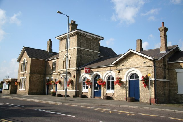 Spalding Station Built in 1848 for the Great Northern Railway Company